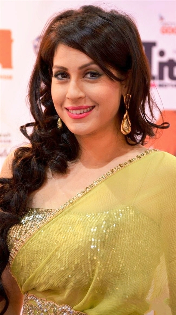 Amrita Raichand at Tours and Travels exhibition